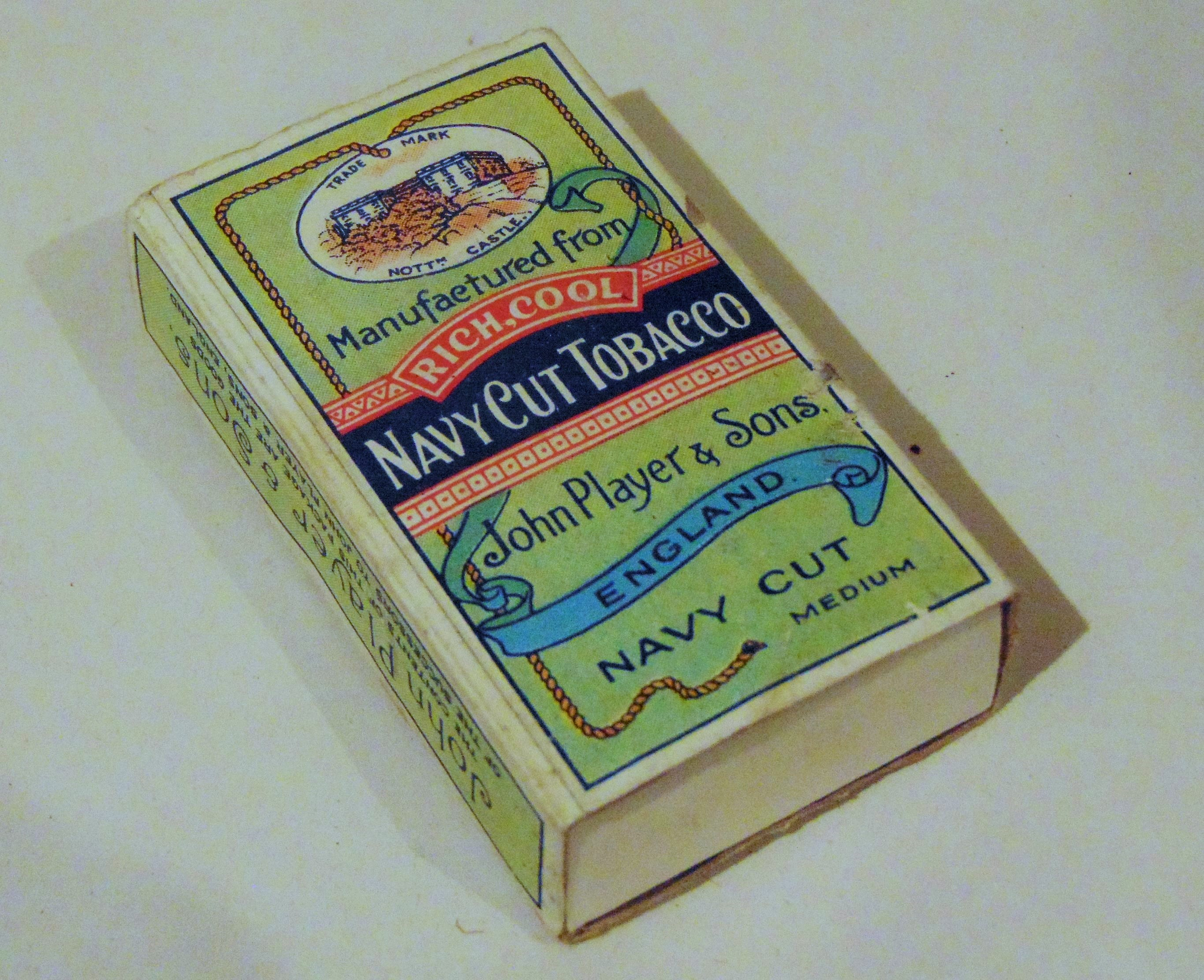 Package of John Player & Sons Navy Cut Tabacco, cigarettes Photographed in the collection of the National Liberation Museum 1944-1945, the Netherlands, archive number G104